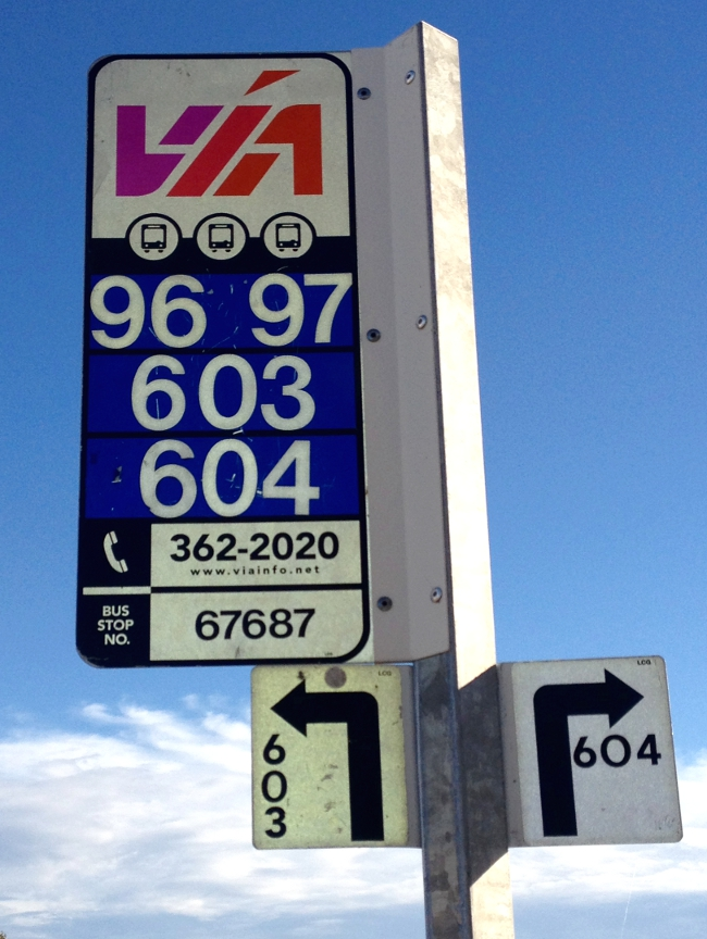 Typical standalone bus stop sign used by Via Metropolitan Transit.